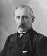 Portrait of Senator Charles Felton of California